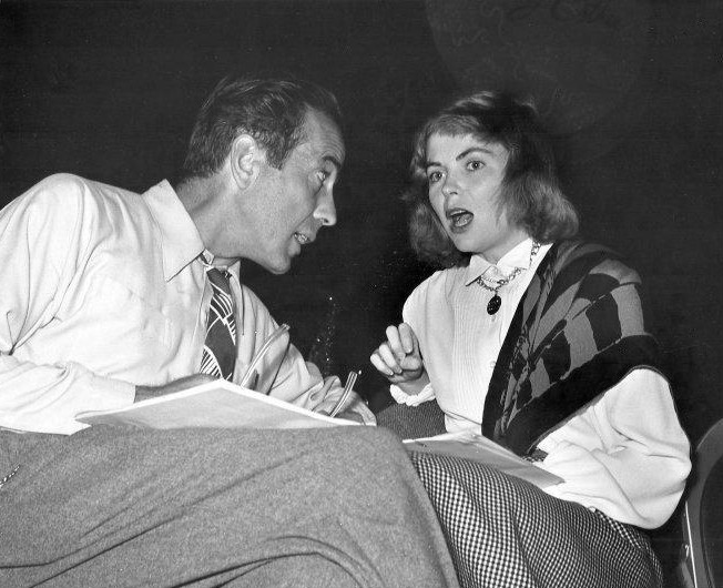 Photo of Humphrey Bogart and Dorothy McGuire rehearsing a radio show at CBS.